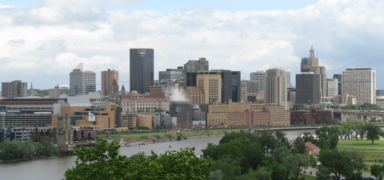 Saint Paul skyline and Lake of the Isles from the West Side neighborhood: left to right the seven tallest buildings: The Pointe of Saint Paul, the first major high-rise in St. Paul to be converted to condominiums, in early 2003; Travelers Building, the tallest building in downtown St. Paul without direct access to the city's skyway system; The tallest building is the former Minnesota World Trade Center, which was renamed Wells Fargo Place on May 15, 2003; Landmark Towers features offices on floors 1-19. The top floors of the building are condominium units; First National Bank Building was the tallest in St. Paul from 1930 until 1986. The tower atop the building supports a large red flashing "1st" which can be seen for many miles in all directions; Behind and left is the Jackson Tower at Galtier Plaza which was the tallest building in St. Paul for one year, until the 1987 completion of Wells Fargo Place; Far right, The Kellogg Square Apartments is the tallest all-rental apartment building in St. Paul.